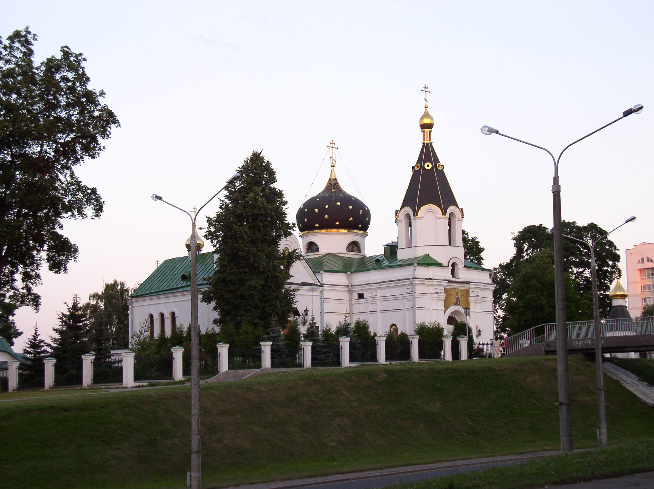 Church of Saint Mary Magdalene, Minsk, Belarus.